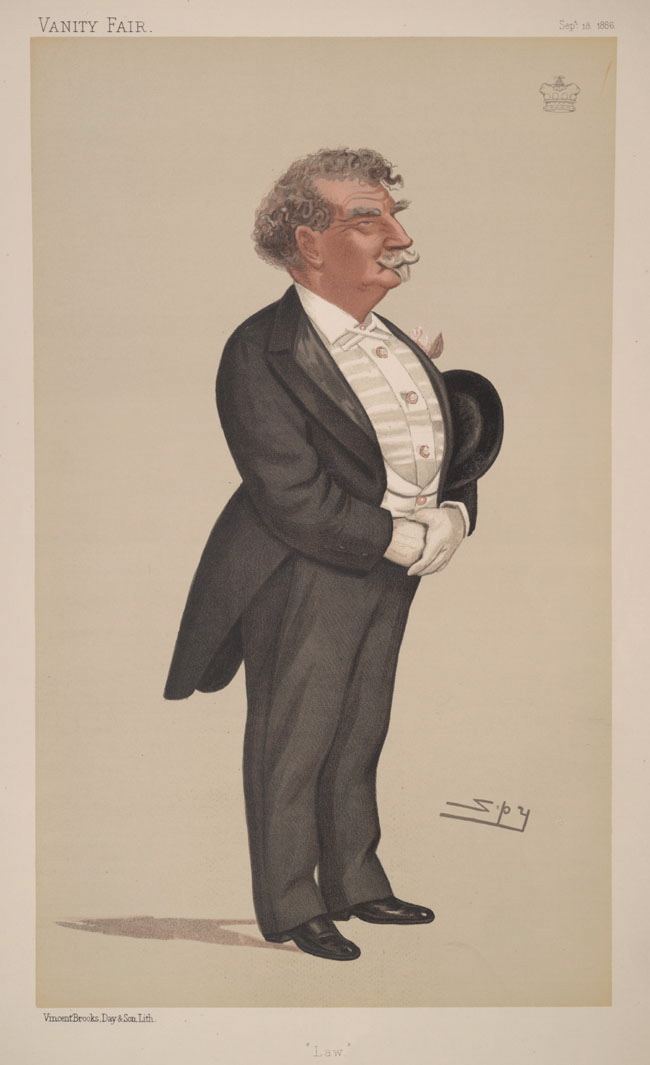 Statesmen No.499: Caricature of The Lord Ellenborough [1]. Caption reads: "Law"